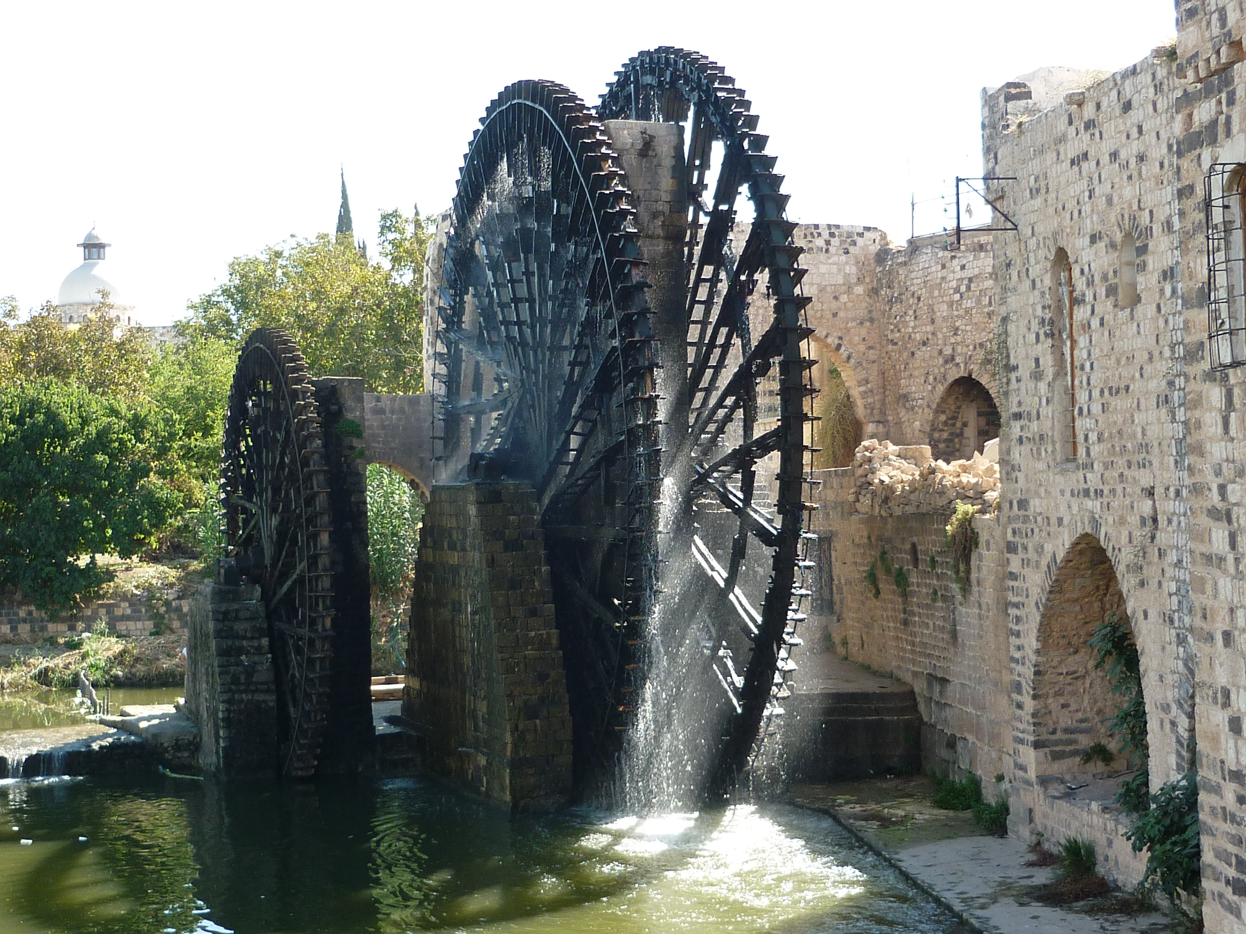 Hama, Syria - a noria at the town's park.